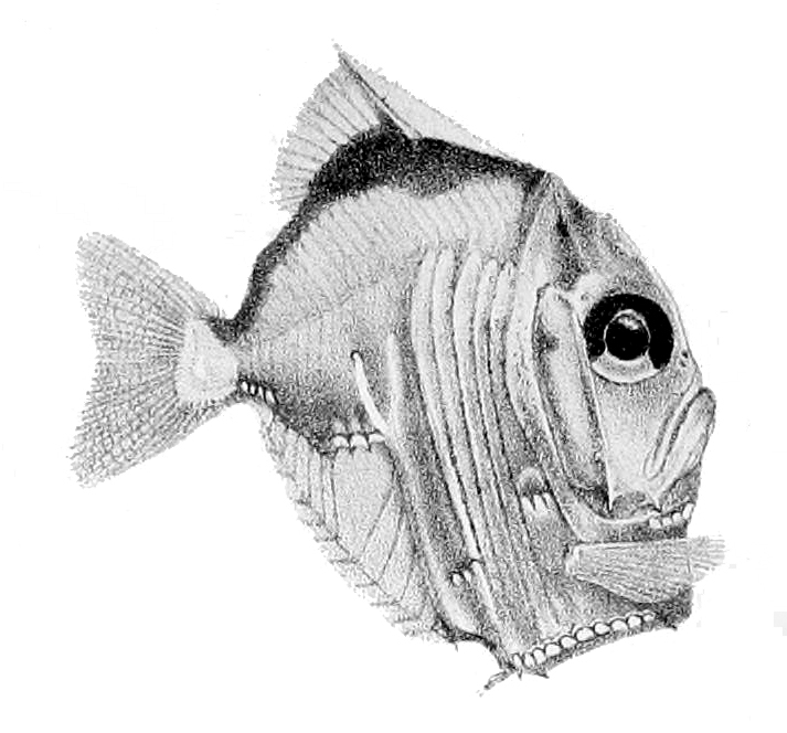 Sternoptyx diaphana